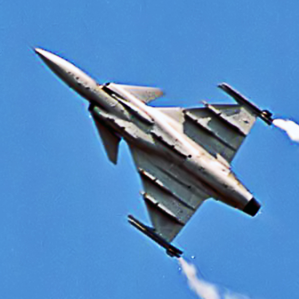 JAS 39 Gripen